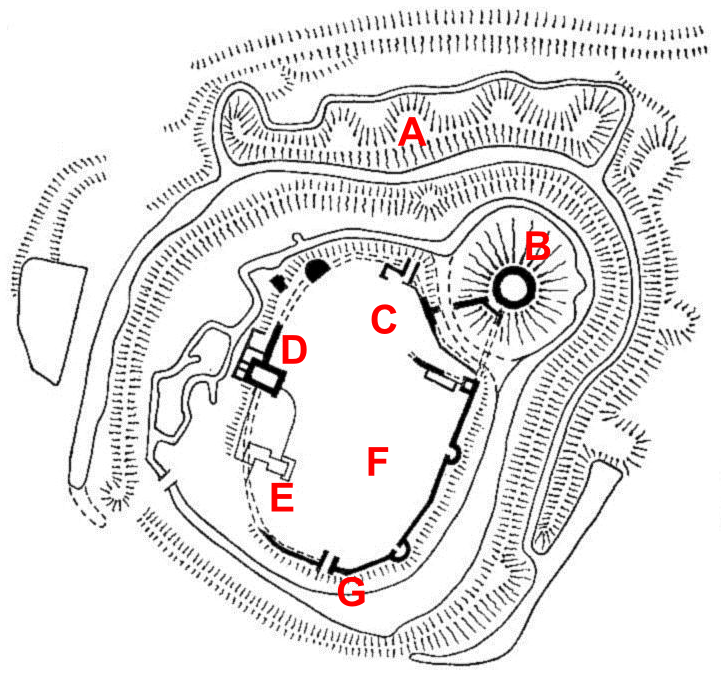 Berkhamsted Castle map - labelled